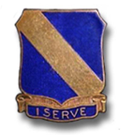 51st Infantry Regiment